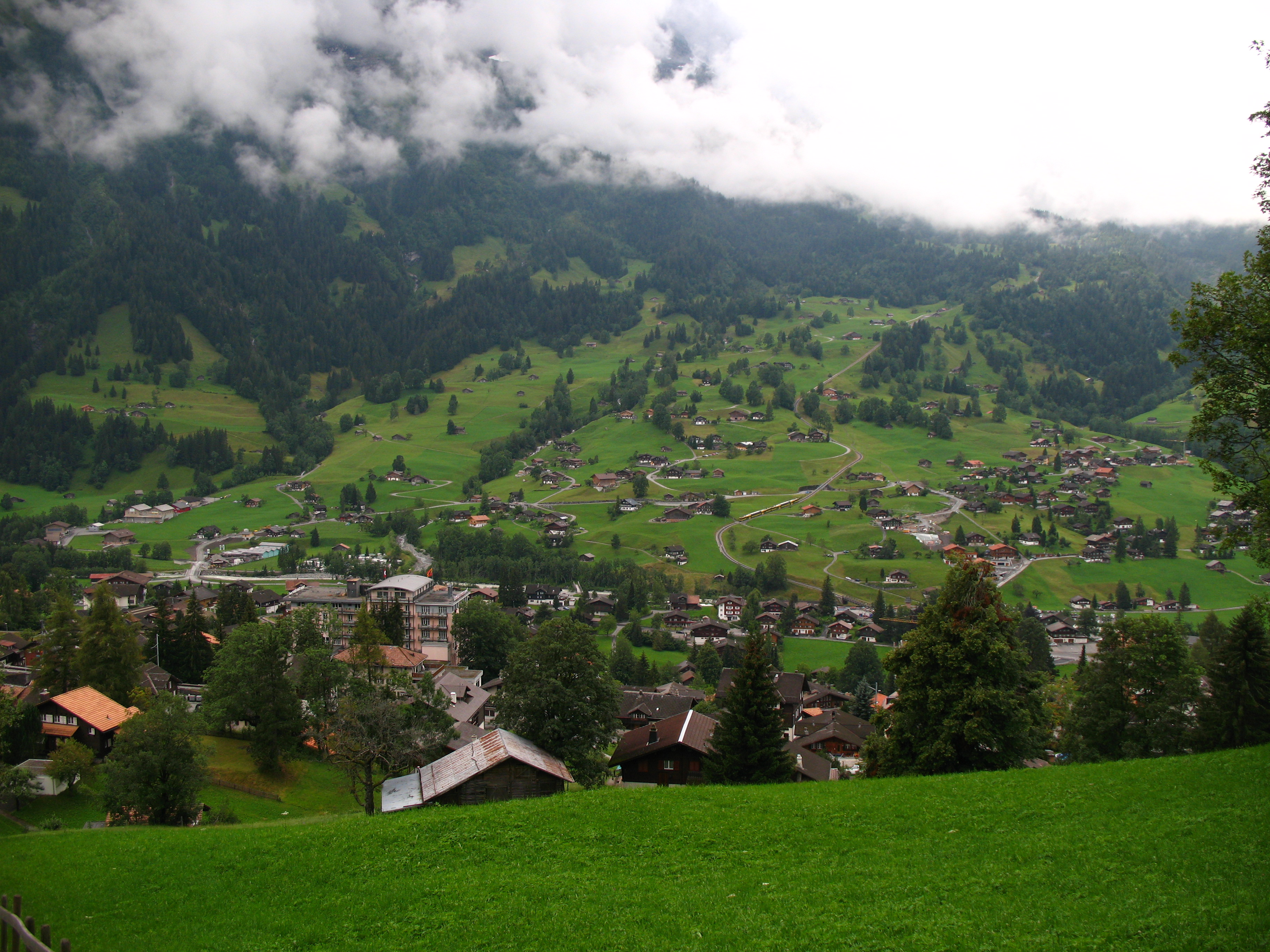 View from Im DürrenbergliGrindelwald, Switzerland